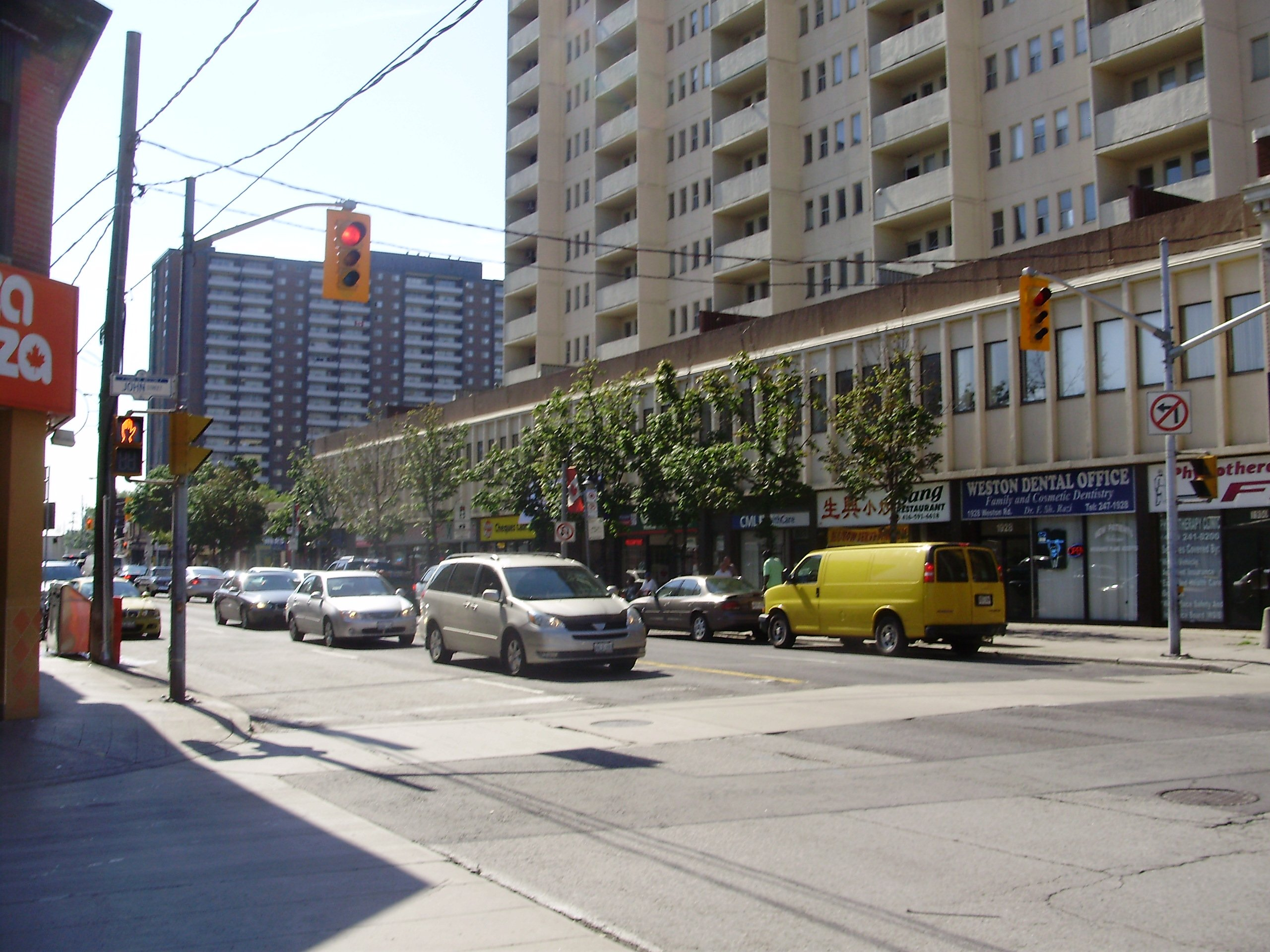 Weston Road at its intersection with John Street in Weston, Ontario, Canada, a component community of Toronto. This part of Weston Road, just north of Lawrence Avenue West, is Weston's effective downtown core.